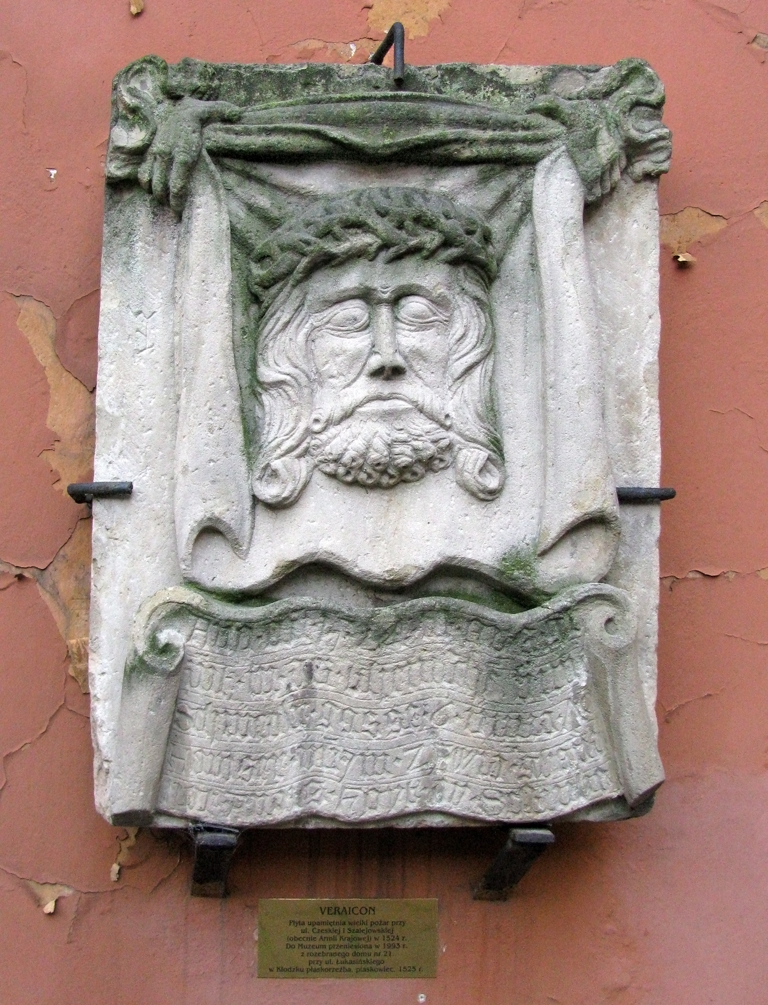 Garden on Łukasiewicza Street in Kłodzko